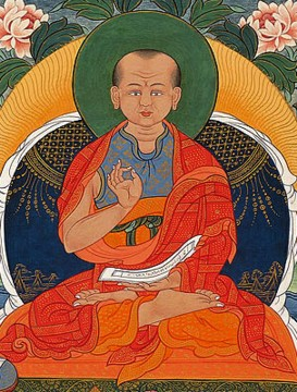 Geshe langri tangpa (1054-1123 ), author of Eight Verses of Training the Mind.